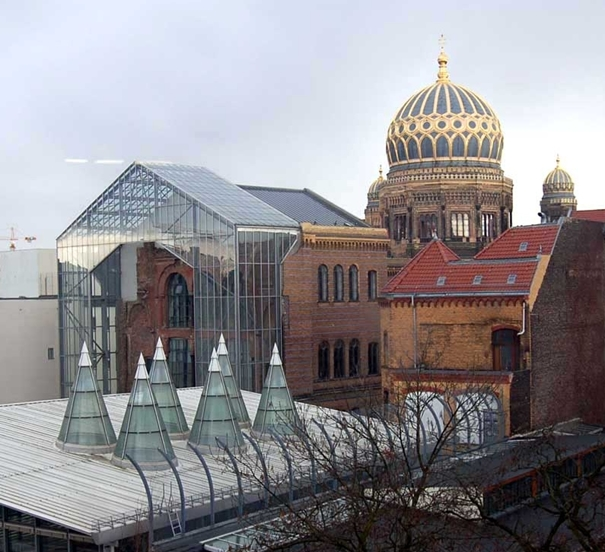 Back of the New synagogue of Berlin. This large synagogue was completed in 1866 and housed congregations of up to 3,000 people. It was partly damaged and burned on Kristallnacht in 1938 and also suffered bombing damage during WWII. Since the fall of the Berlin wall it has been renovated and this photo shows the back of the building with the transition from the old to new construction.